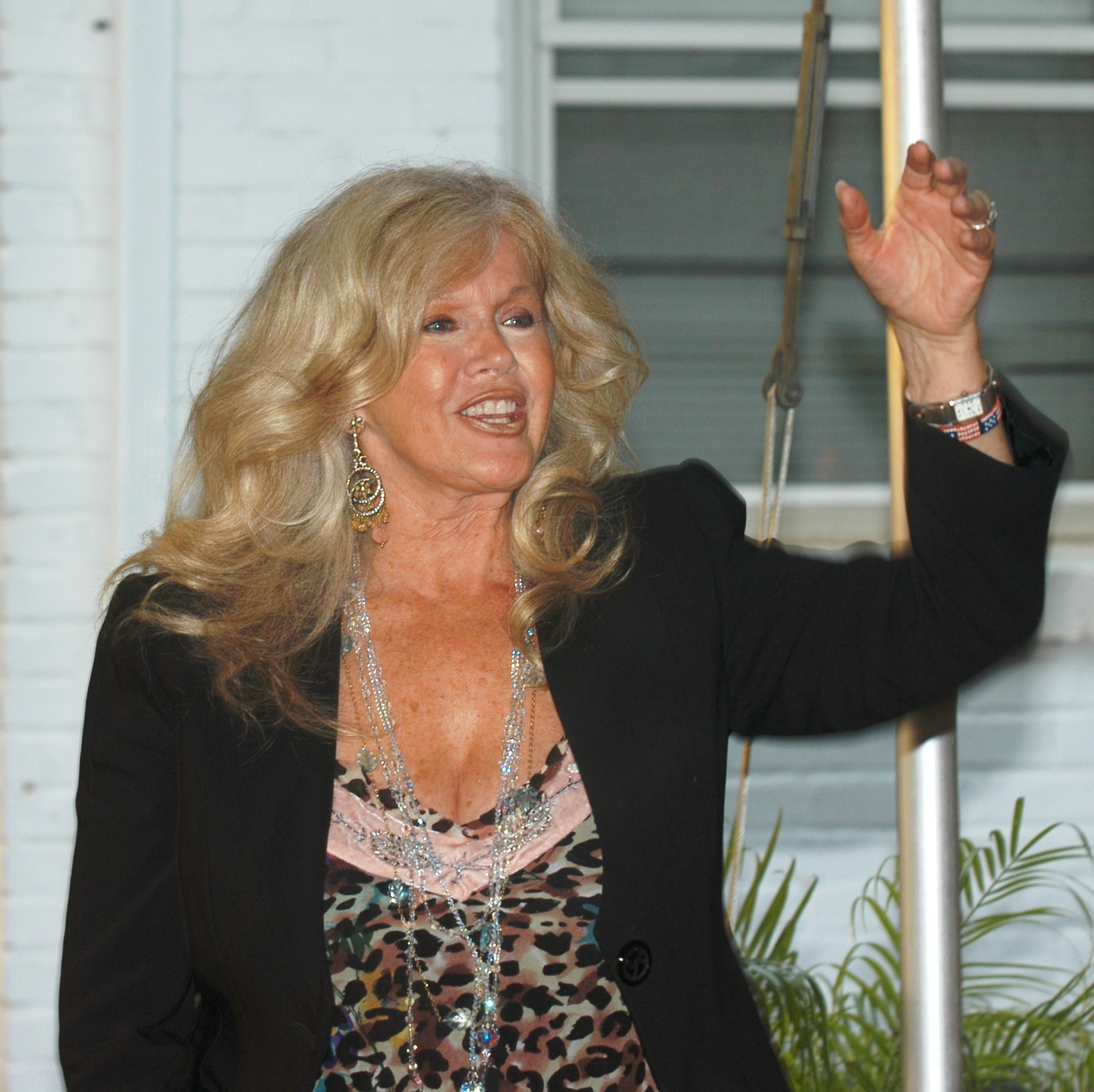 Entertainer Connie Stevens in 2006.